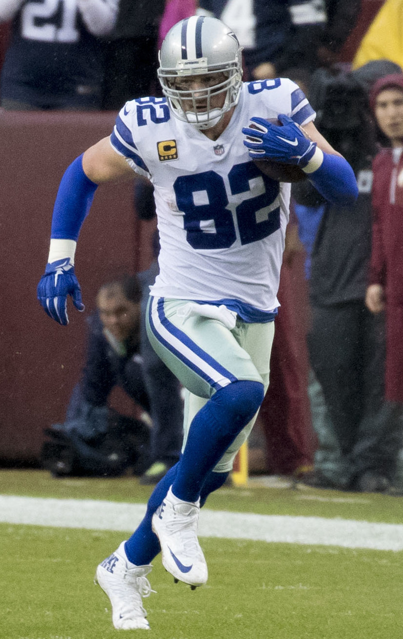 Cowboys at Redskins 10/29/17